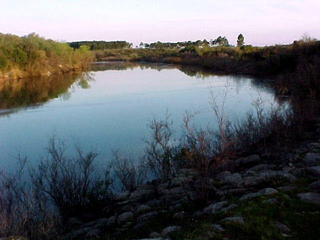 Yi river in Uruguay. It is fantastic for fishing. The "Tararira" is the best fish in this place.